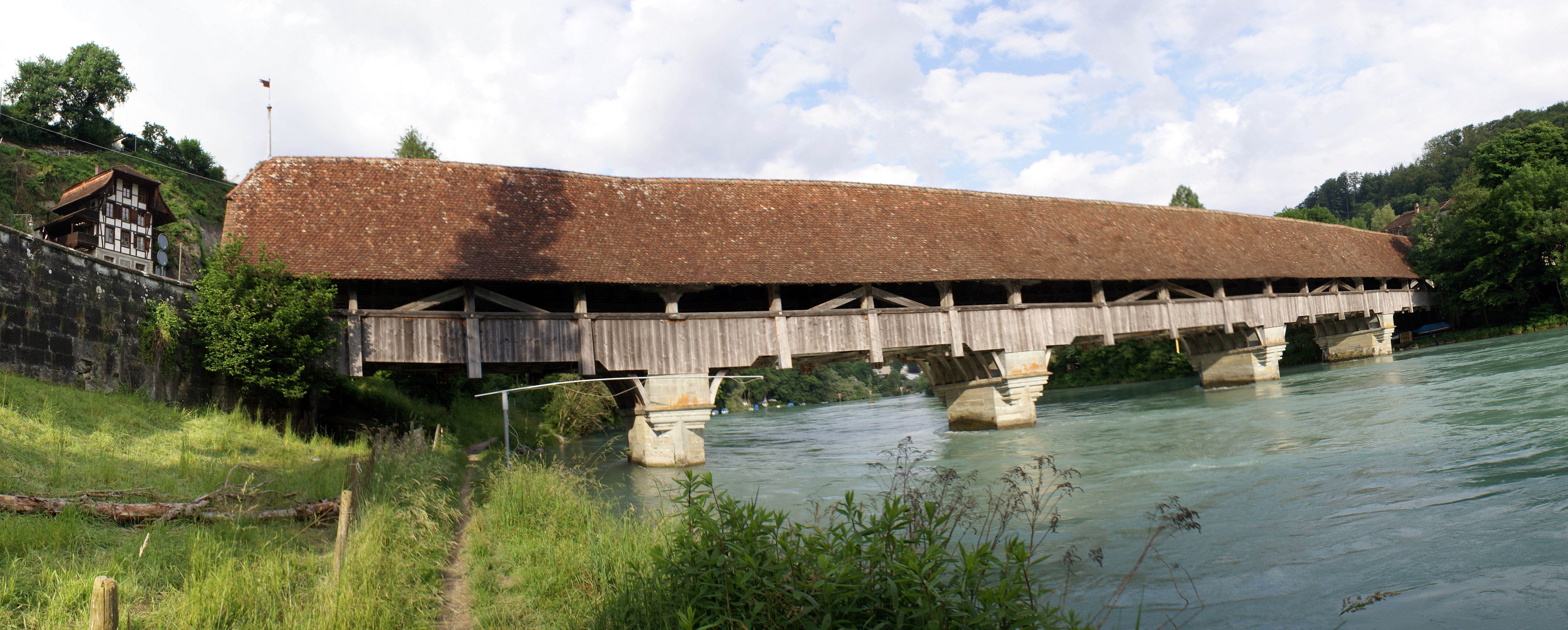 Neubrügg or Neubrücke ("new bridge"), Berne, Switzerland. First built in 1466 to replace a ferry, rebuilt in 1535. Covered bridge on sandstone pillars, oldest wooden bridge in the Canton.